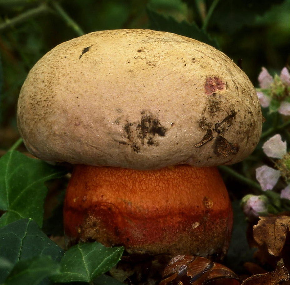 The source of this image is the photographer Frank Gardiner aka Zonda Grattus, who is the sole owner and copyright holder of this photograph and agrees to publish it under the Own Work, Creative Commons Attribution 3.0 License.